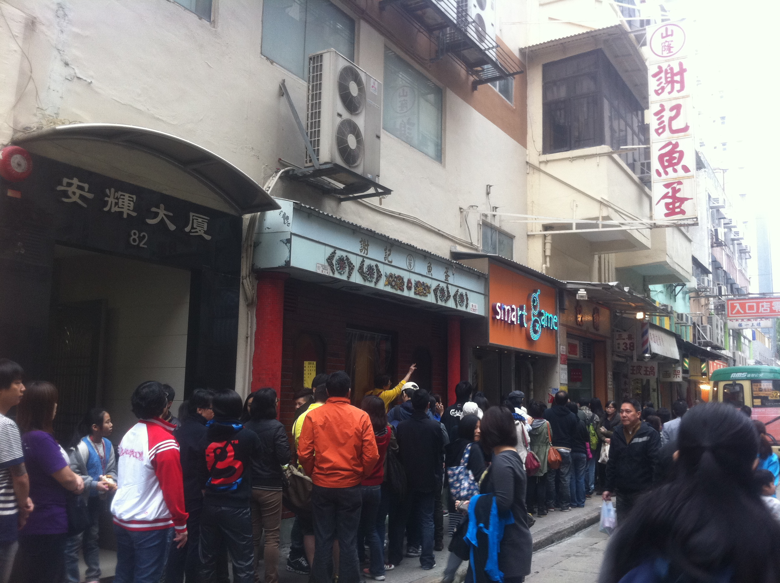 中文（香港）: 香港仔舊大街 80 Old Main Street 山窿謝記魚蛋